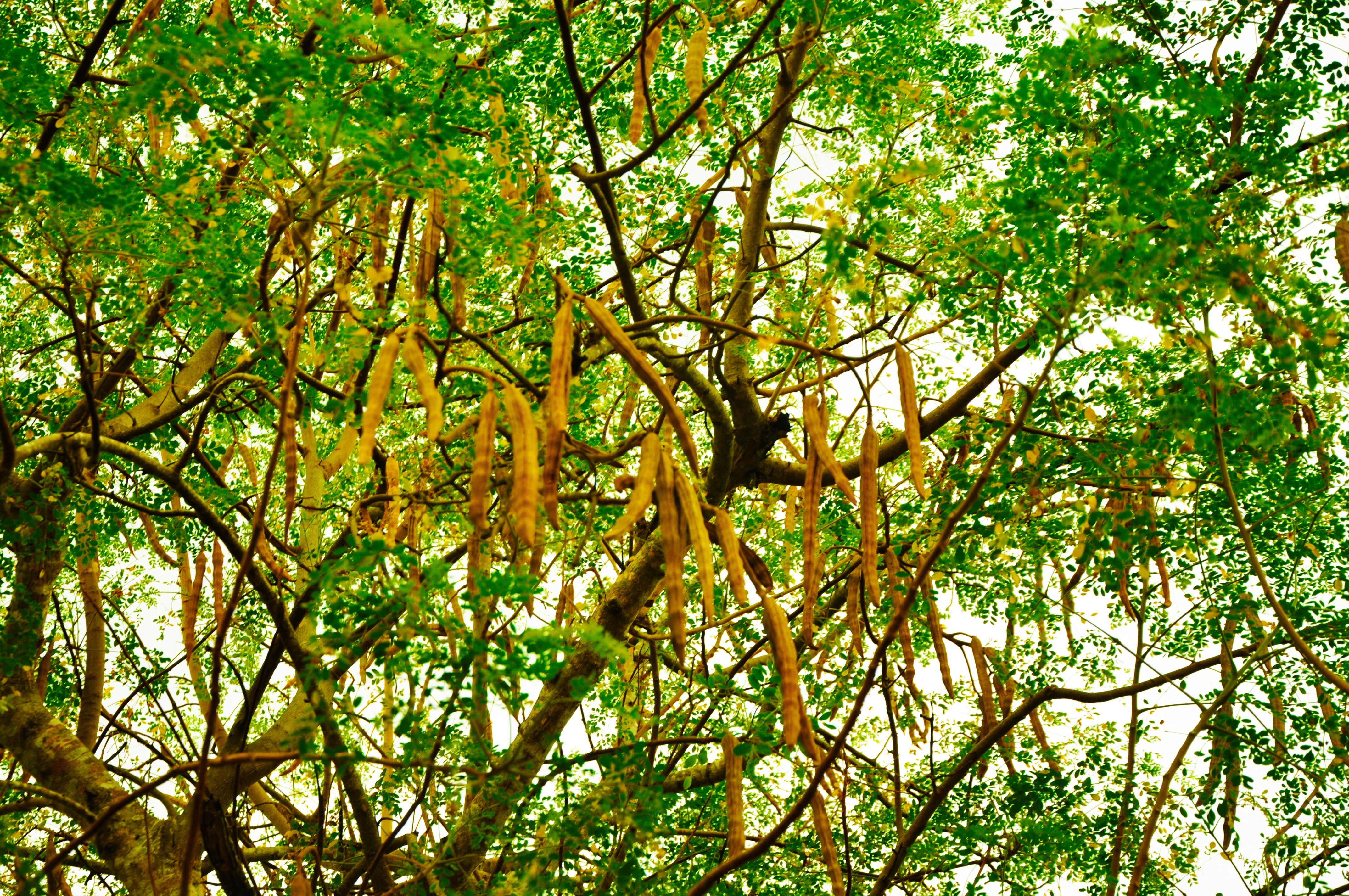 The tree and seedpods of Moringa oleifera in Dakawa, Morogoro, Tanzania. This photo has been taken by Prof. Chen Hualin.